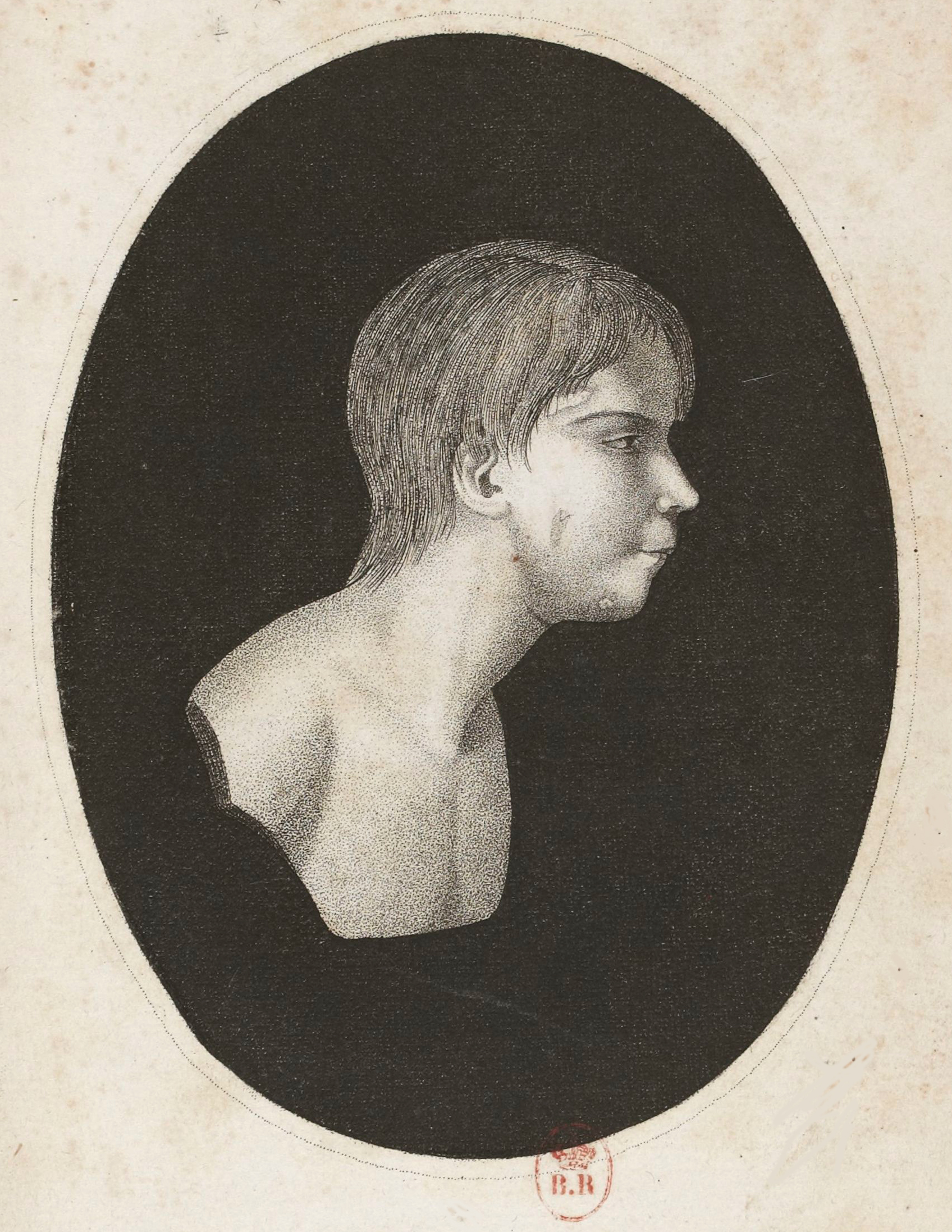 Victor, the salvage of Aveyron, end XVIIIe.